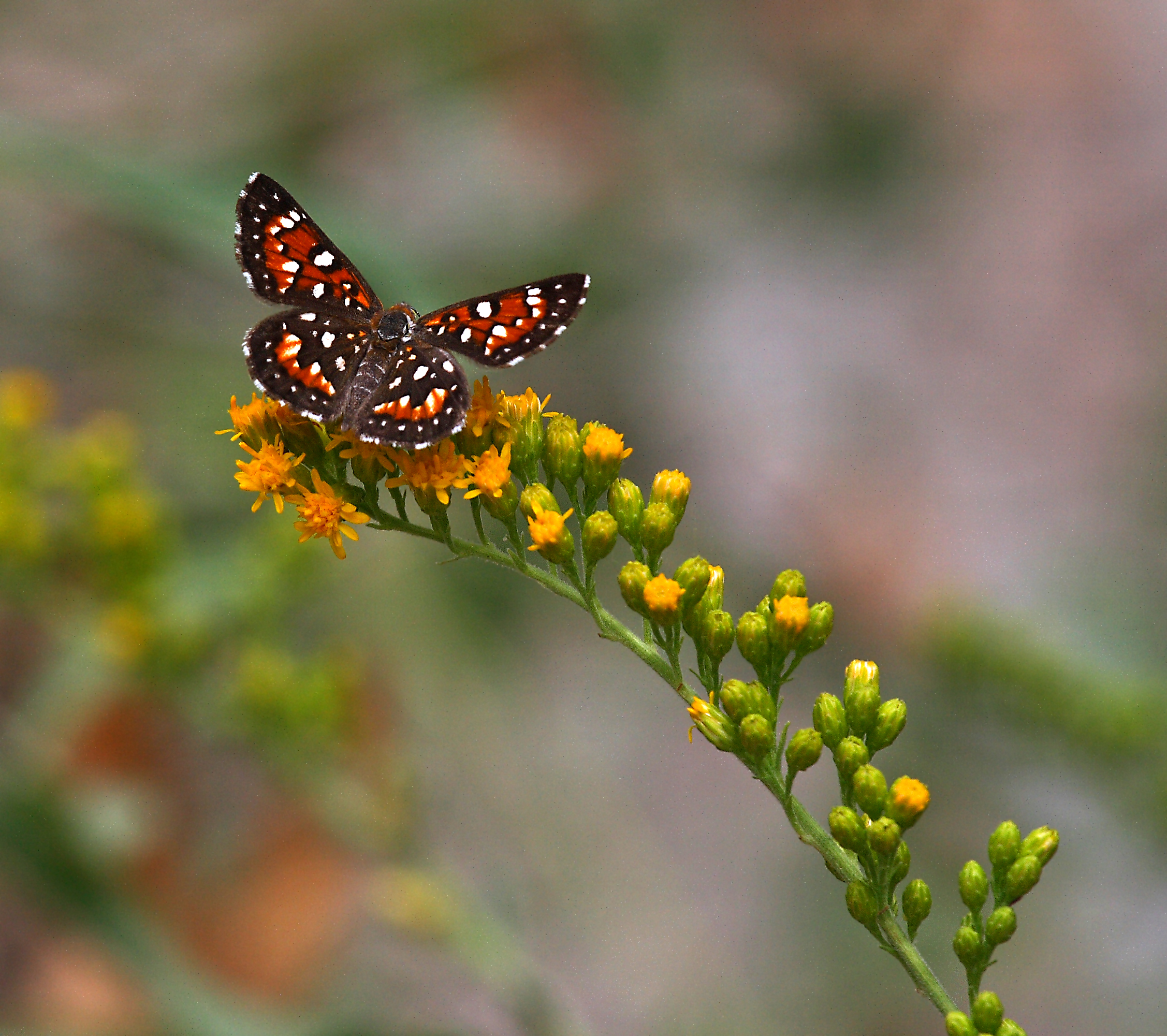 Mormon Metalmark (Apodemia mormo), California